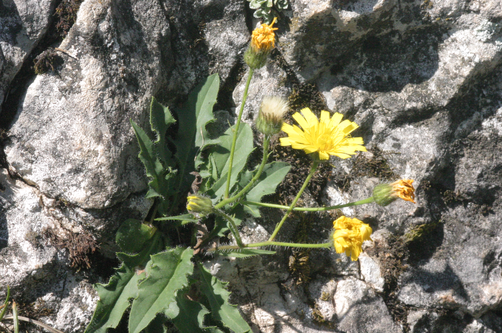 Hieracium humile